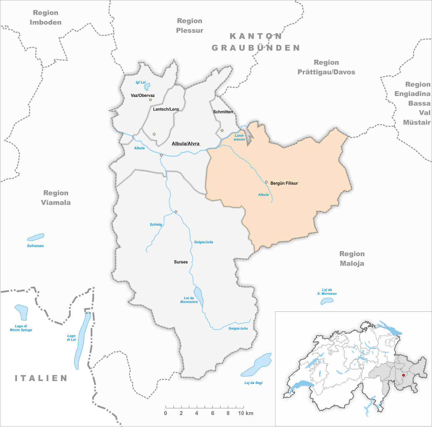 Municipality Bergün Filisur